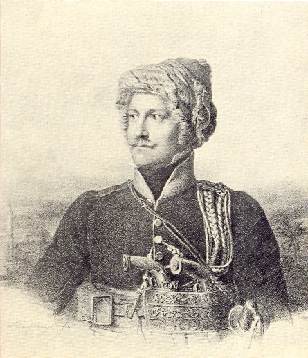 Portrait of British officer, historian and Philellen Thomas Gordon (1788 –1841)